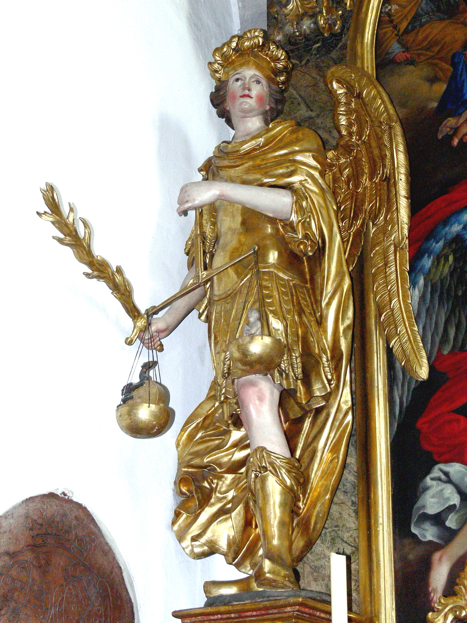 Saint Blaise parish church in Abtenau ( Salzburg ). Skapulier-Altar ( 1702 ): Archangel Michael weighing souls.